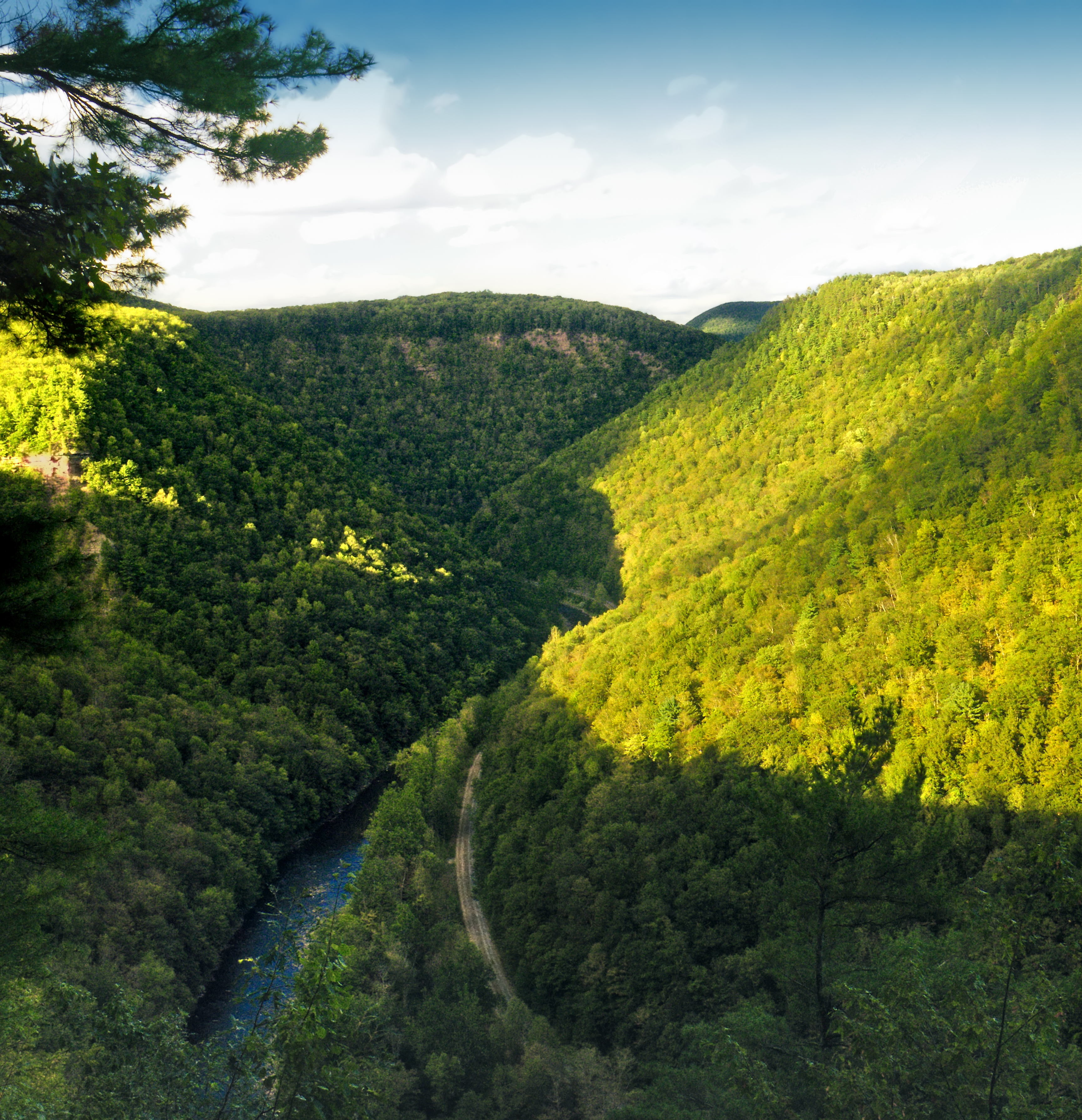 Pine Creek Gorge, Colton Point State Park, Tioga County. Visible at the bottom of the gorge are Pine Creek and the Pine Creek Rail-Trail.